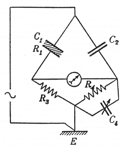 Schering bridge from 1920 publication of H. Schering